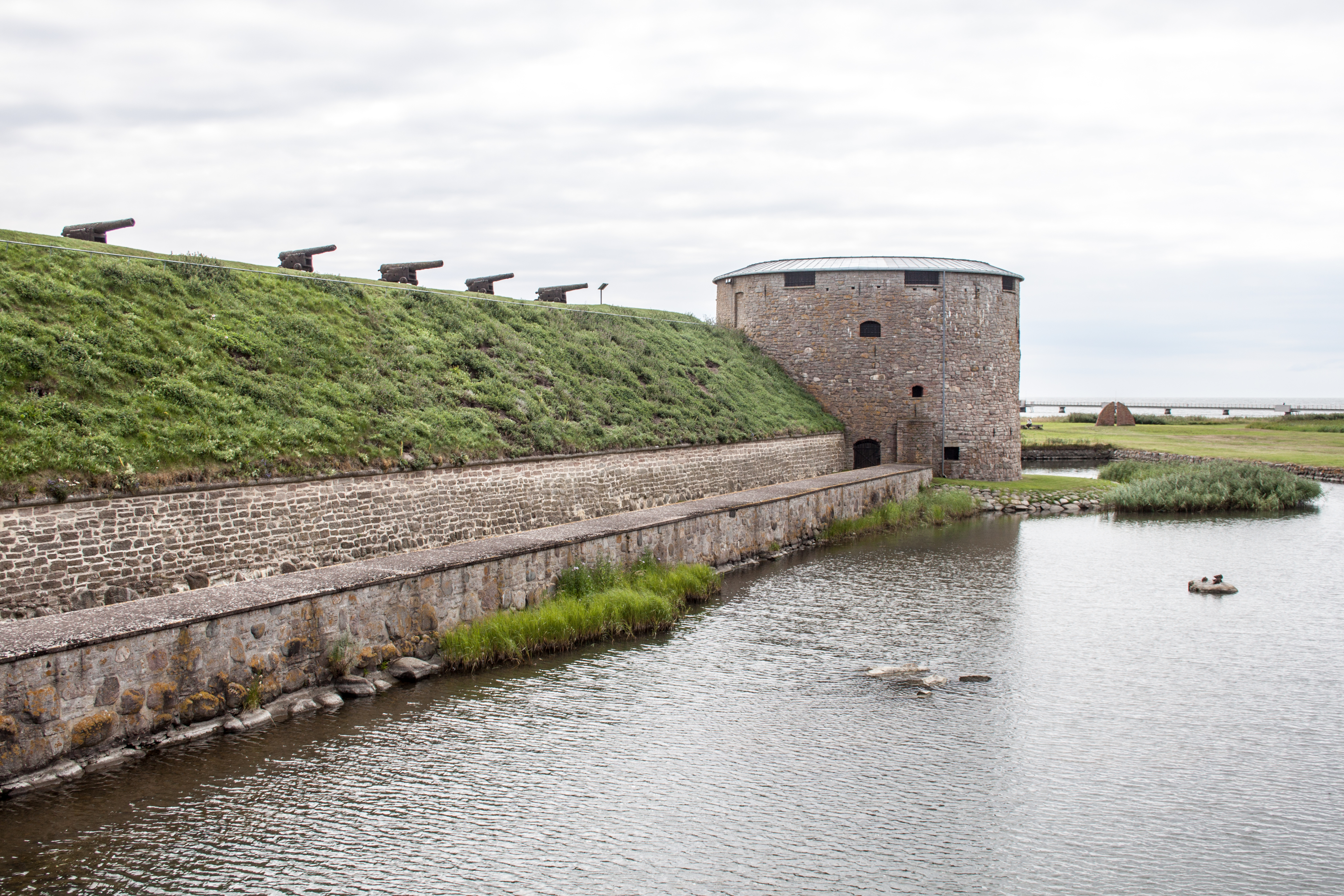 Western bastion of Kalmar Castle